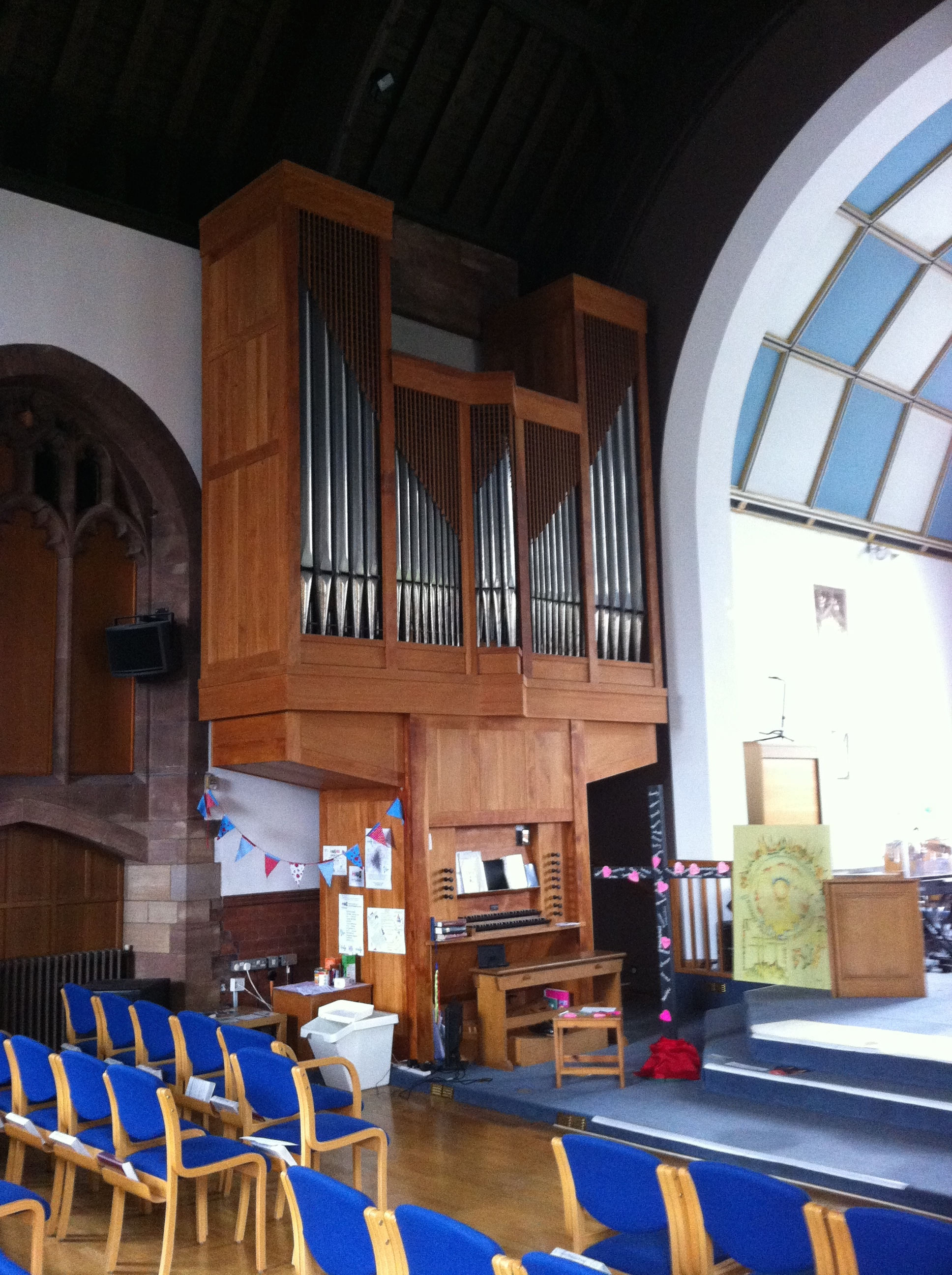 Installed in 1984